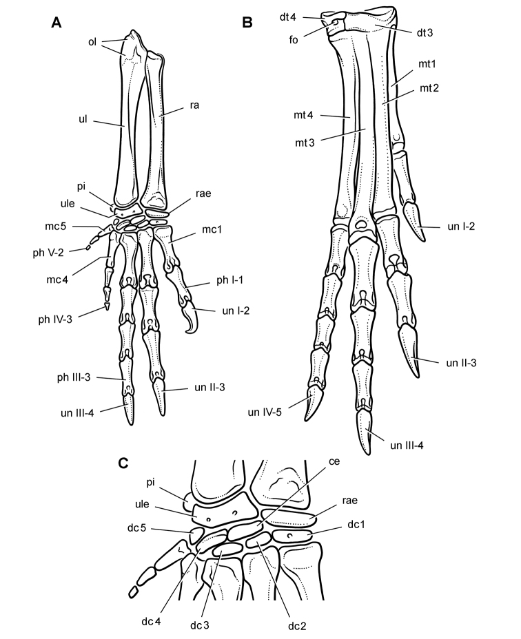 Original description: Limbs of Heterodontosaurus tucki from the Lower Jurassic Upper Elliot and Clarens formations of South Africa. Reconstructions based on an adult skeleton (SAM-PK-K1332). Right forearm, carpus and manus (A), right distal tarsals and pes (B), and right carpus (C) in dorsal view. Abbreviations: I-V digits I-V ce centrale dc1-5 distal carpals 1–5 dt3, 4 distal tarsal 3, 4 fo foramen mc1, 4, 5 metacarpal 1, 4, 5 mt1-4 metatarsals 1–4 ol olecranon ph phalanx pi pisiform ra radius rae radiale ul ulna ule ulnare un ungual.